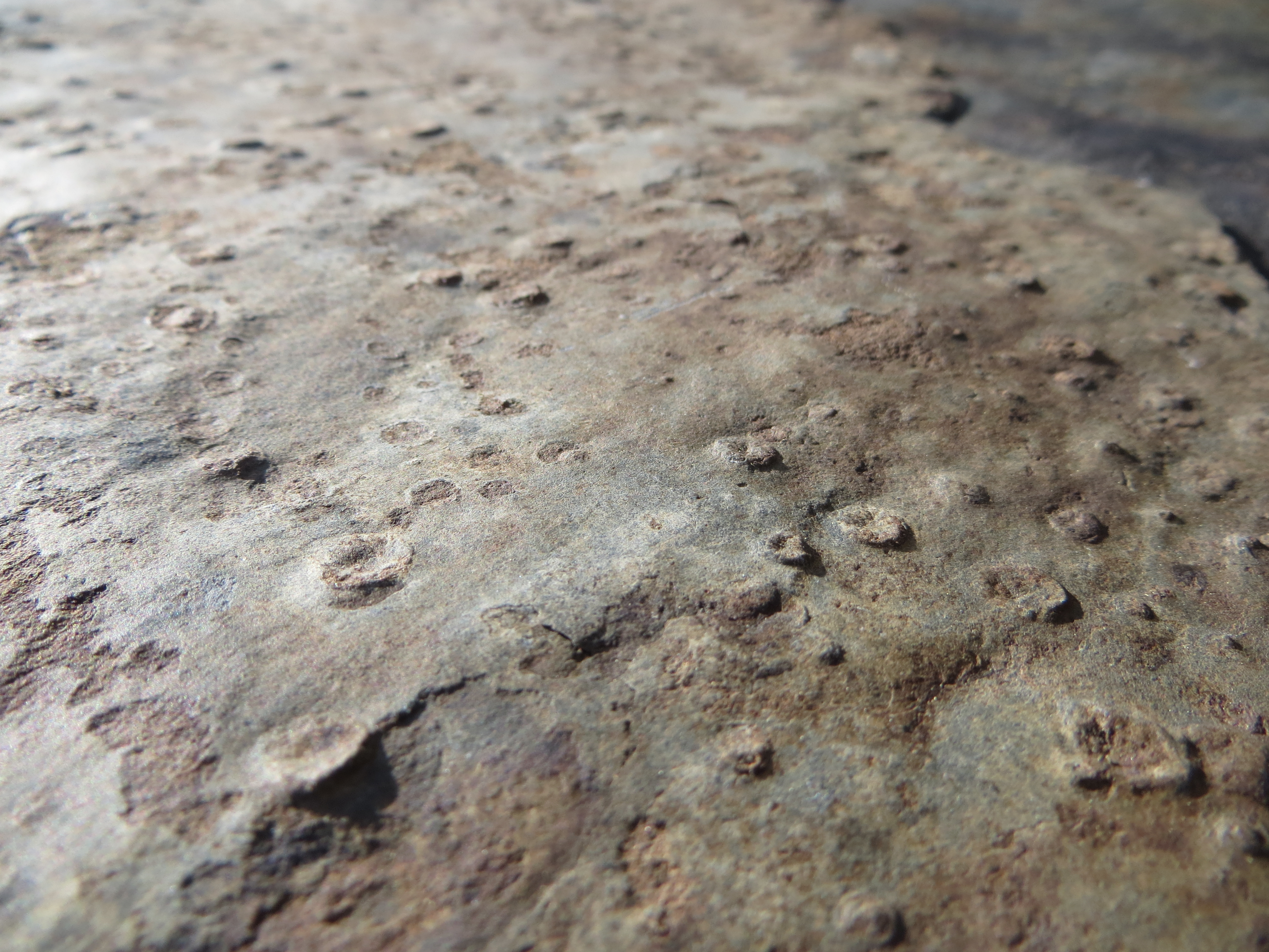 Aspidella discs on a bedding surface of the Fermeuse Formation near Ferryland, Newfoundland